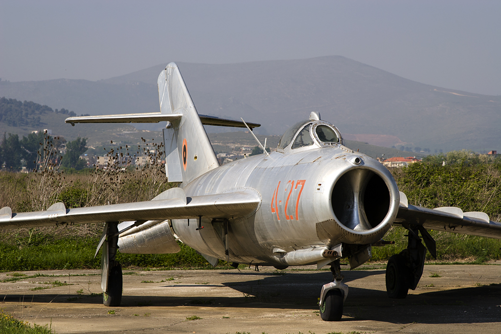 F5 (Chinese version of the MiG-17 'Fresco') at Kucove.